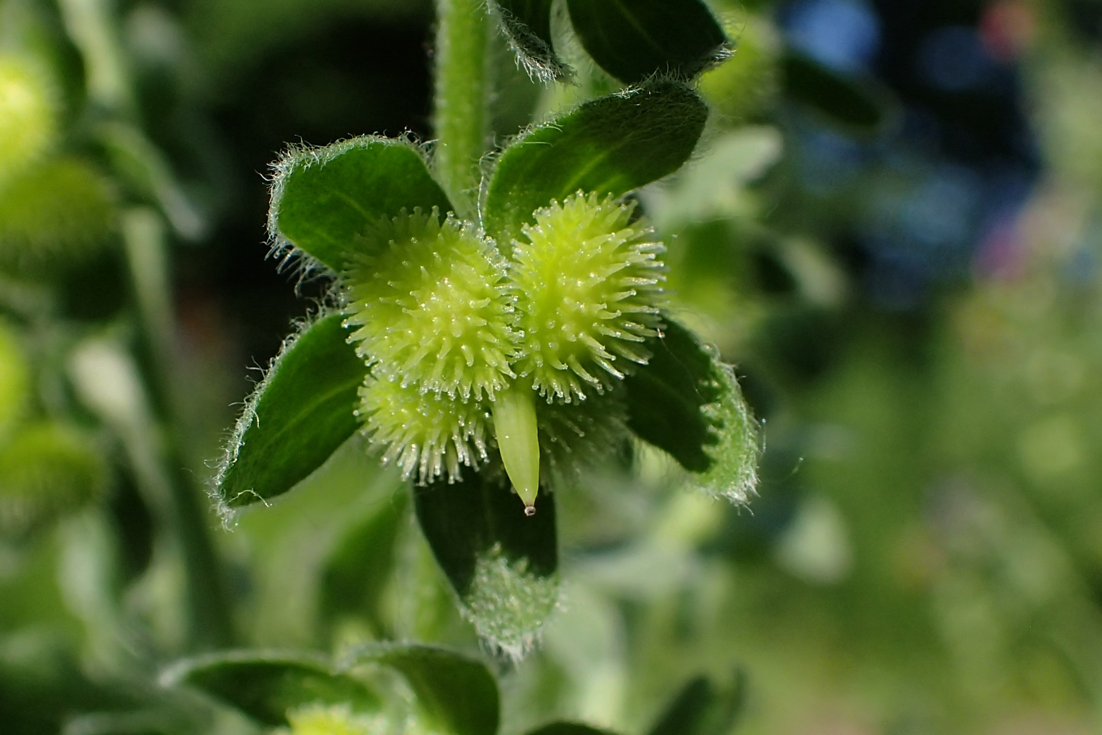 Cynoglossum officinale fruit in Botanical Garden of Szeged